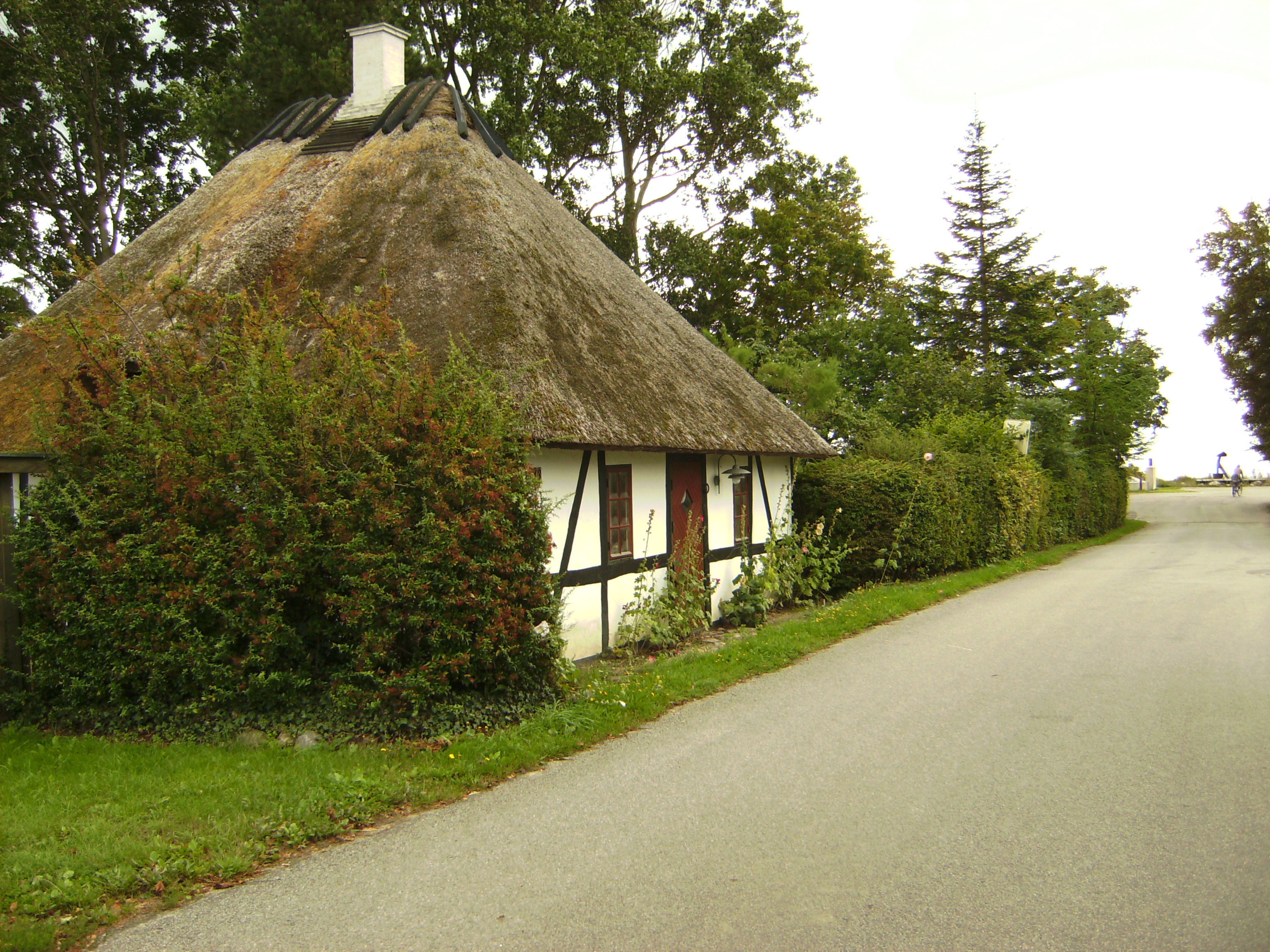 Stubberup (Herritslev Sogn), Lolland, Danmark